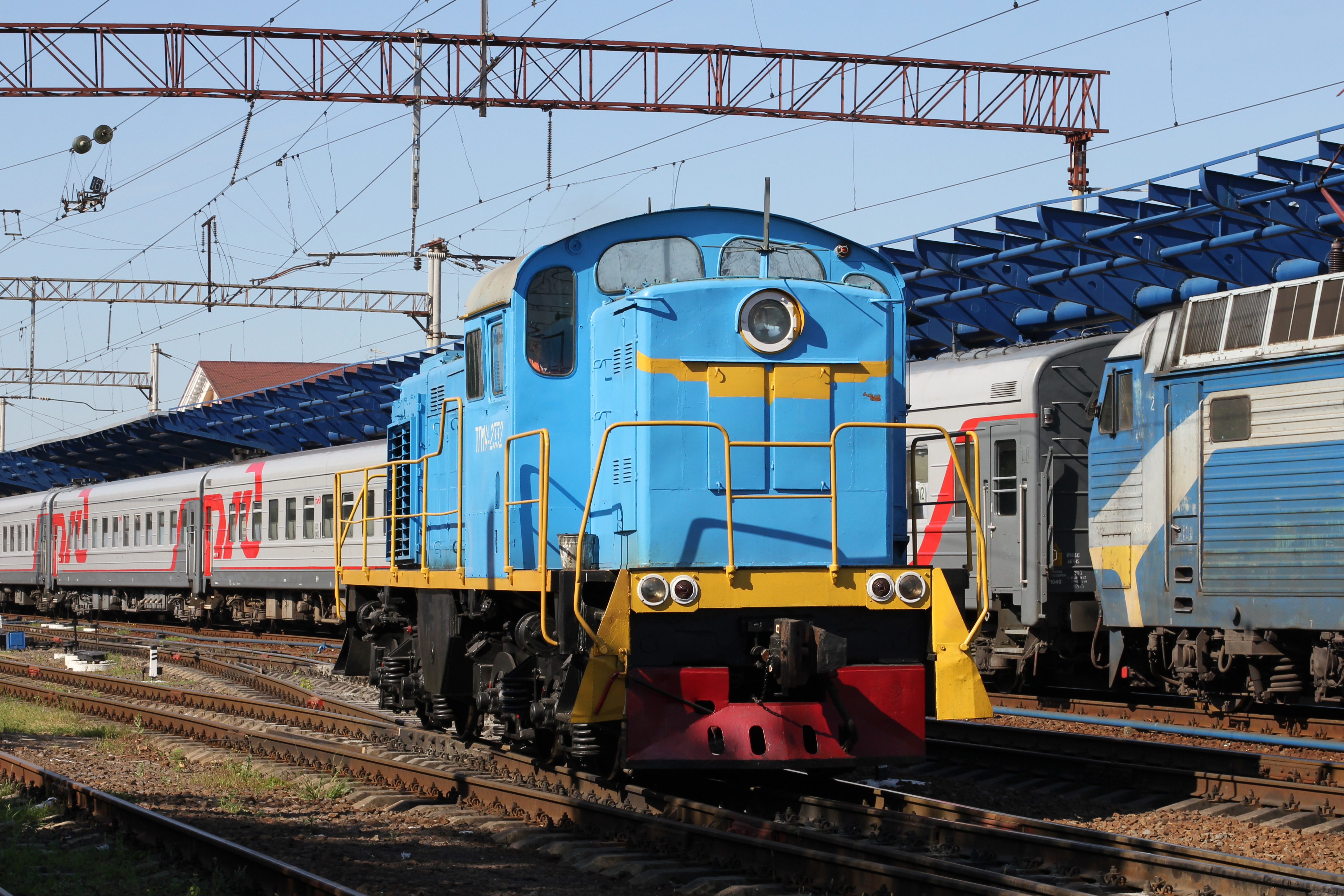 Diesel locomotive TGM4A-2332 in Vinnitsa railway station.